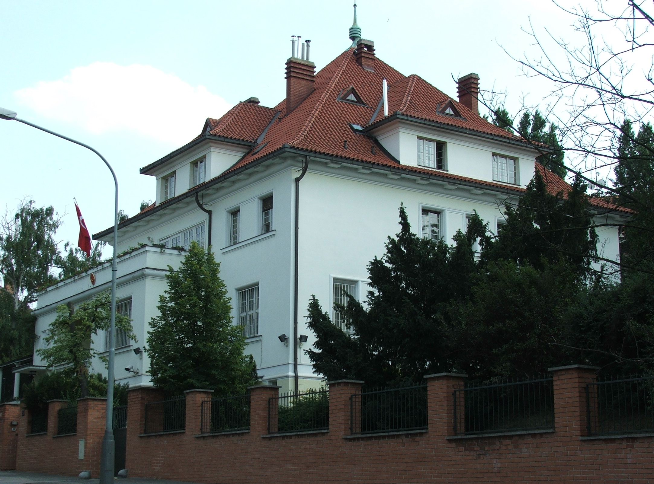 Embassy of Turkey in Prague - Střešovice, Czechia.